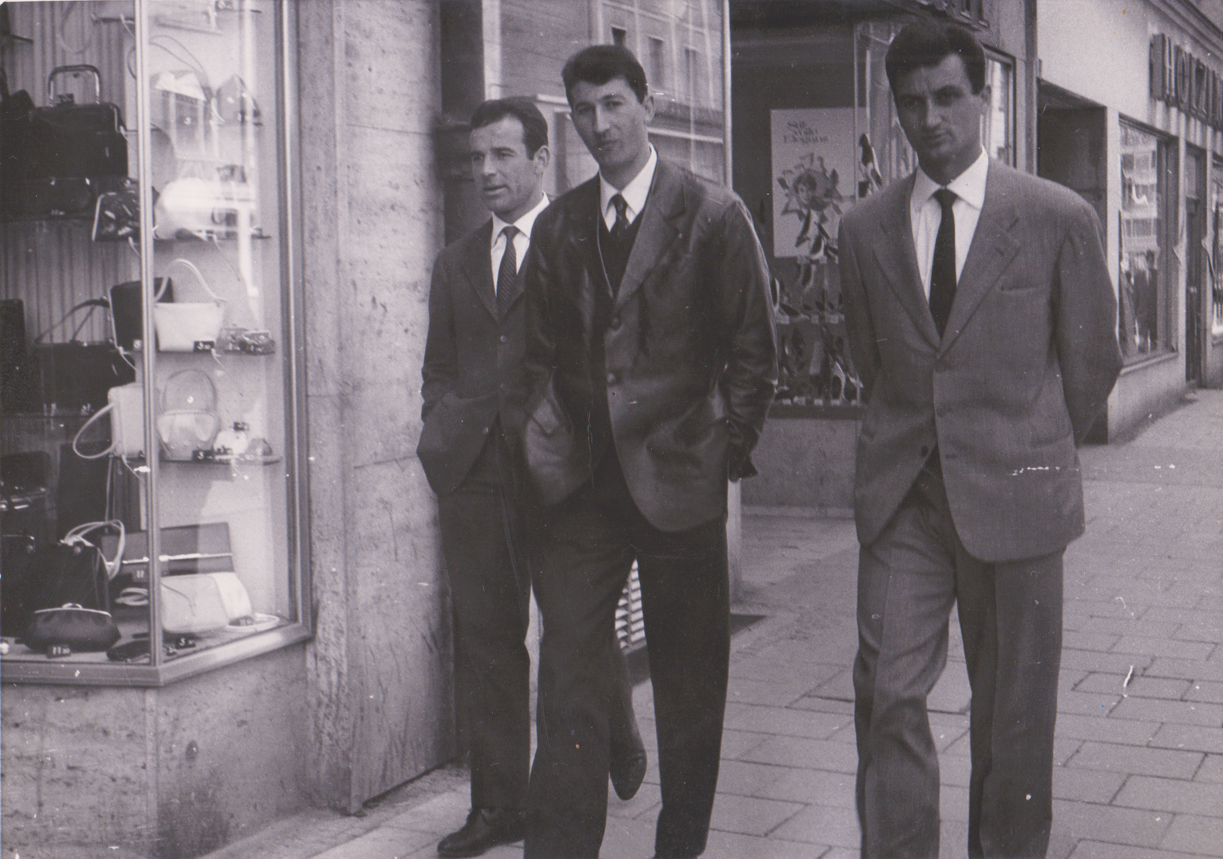 The players of Lanerossi Vicenza Savoini, Menti, De Marchi stroll in Chicago, June 1964.